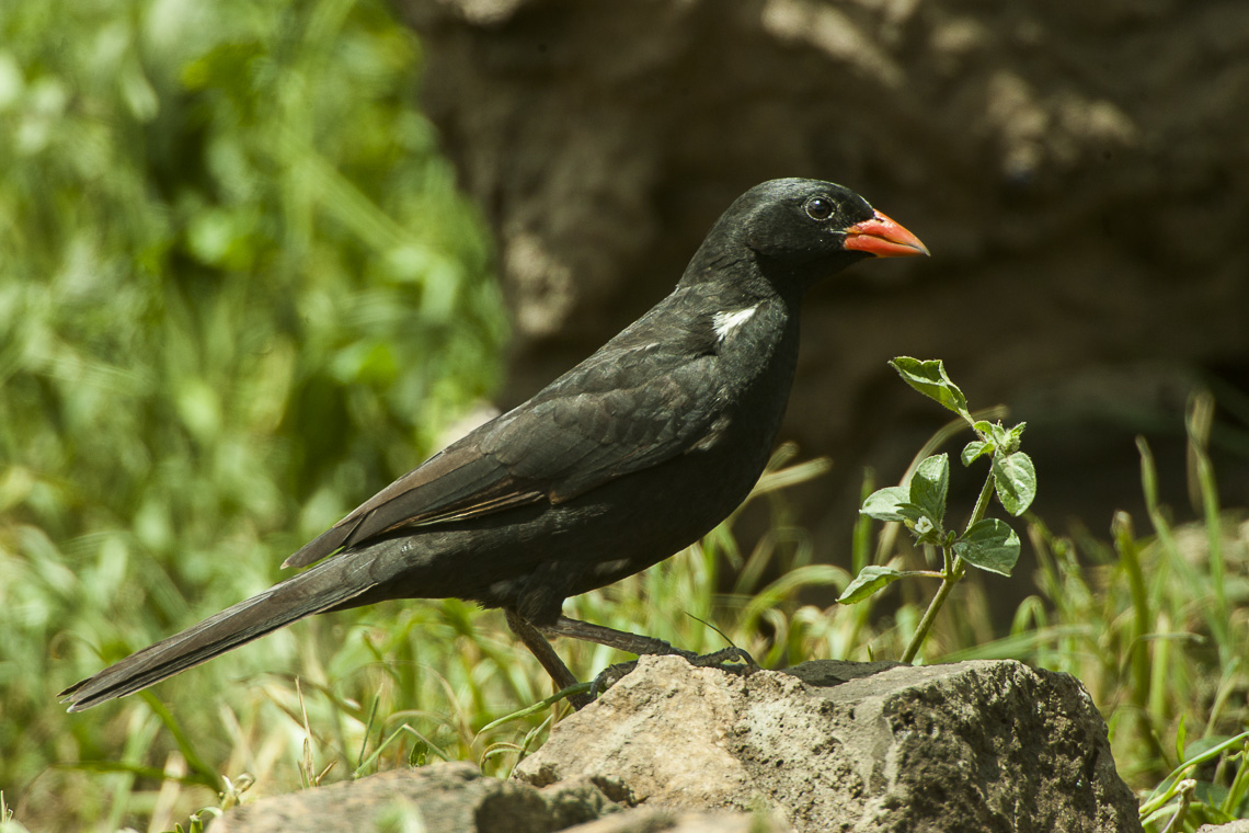 Red-billed Buffalo-Weaver - Tanzania_0219